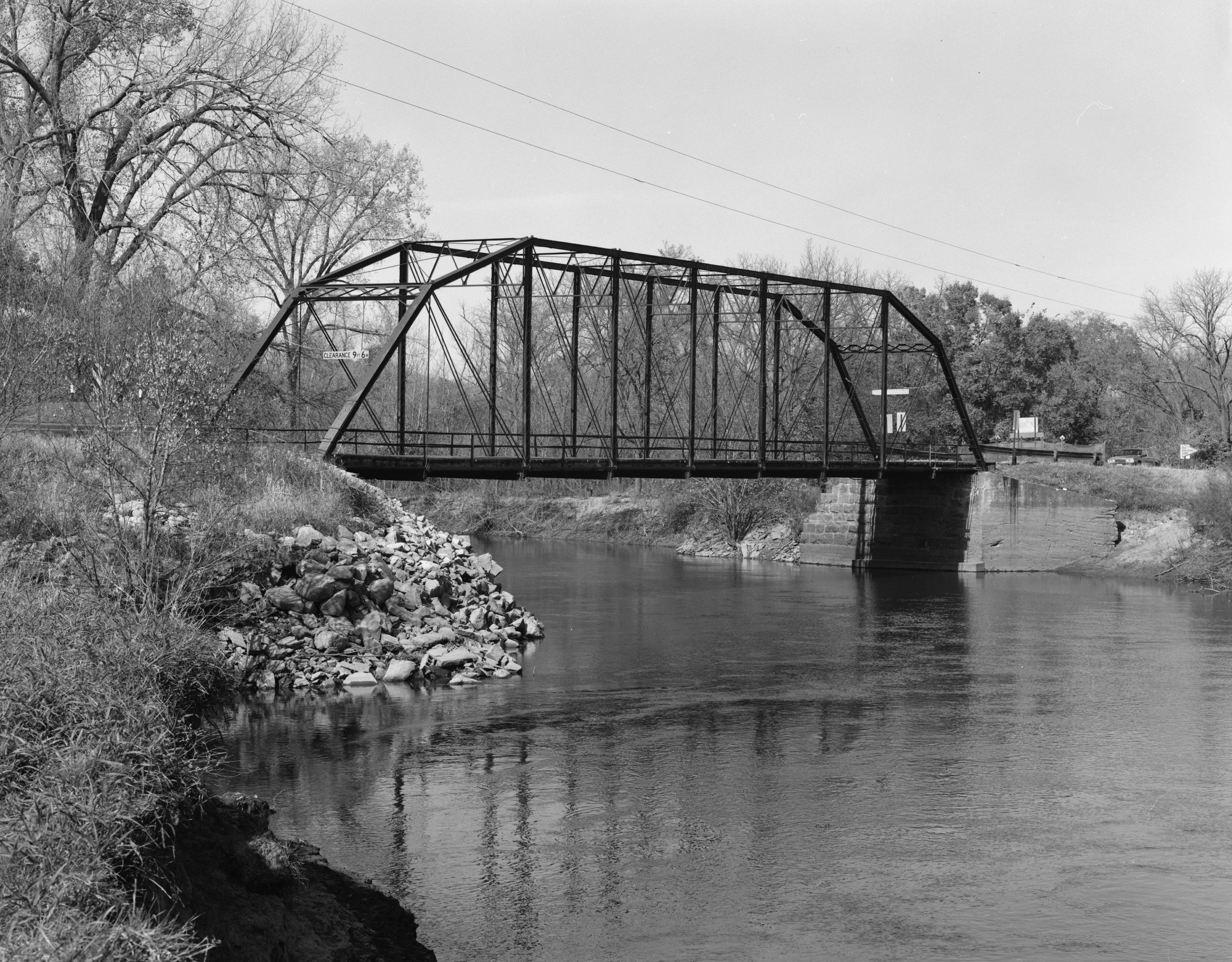 Dodd Ford Bridge, County Road 147 Spanning Blue Earth River, Amboy vicinity, Blue Earth County, MN, East side, looking northwest.